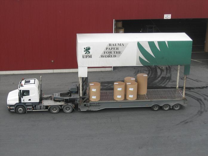 UPM-Kymmene's paper in the port of Rauma in Finland, ready to go from Rauma to Lübeck.